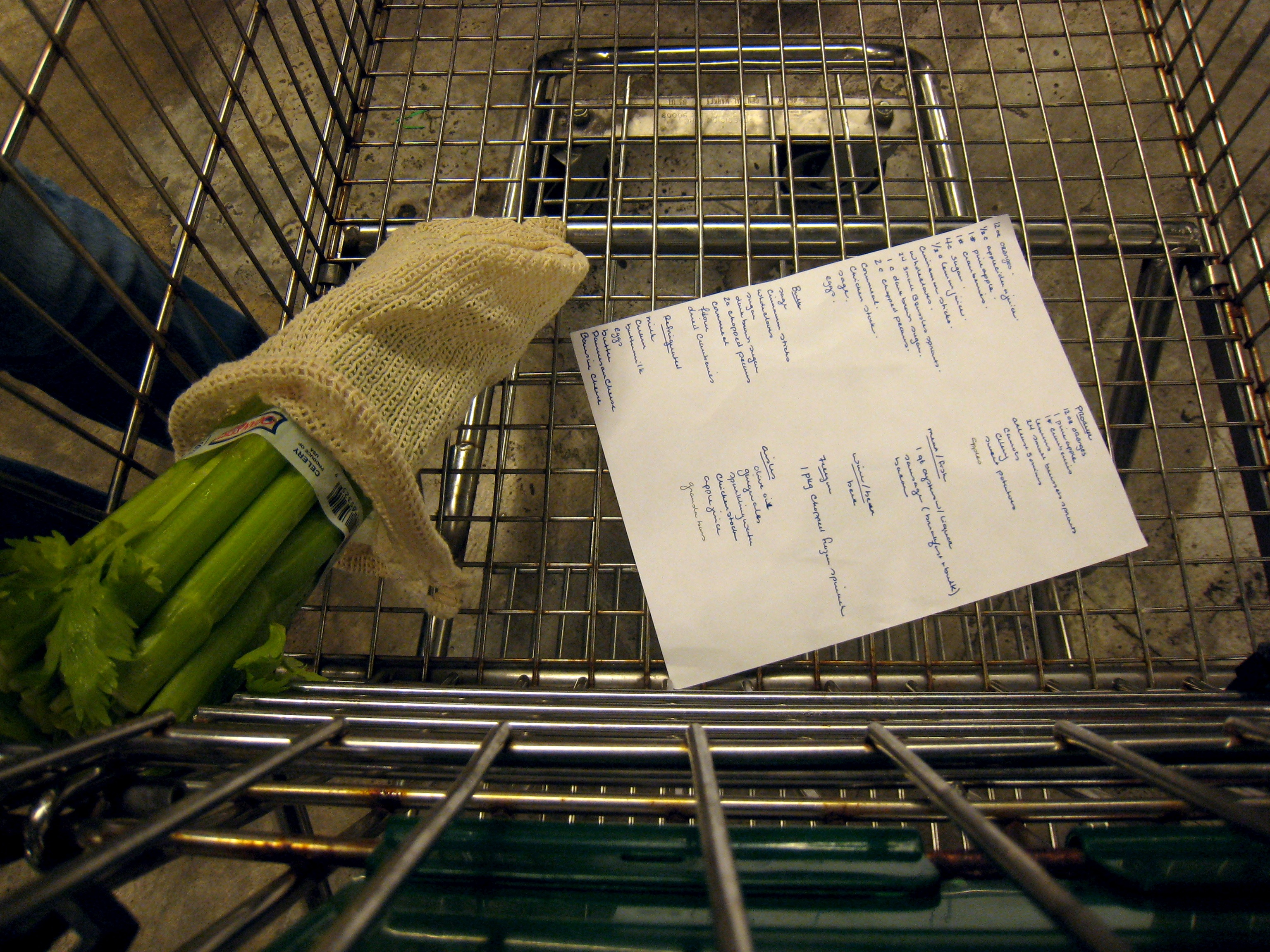 Grocery shopping for Thanksgiving dinner.